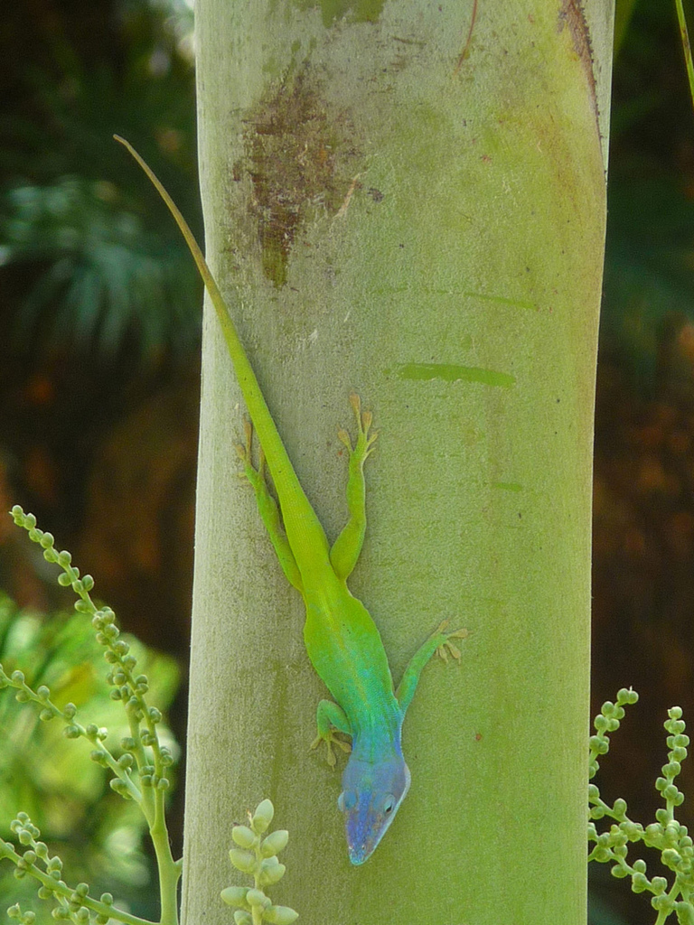 Allisons anole on tree